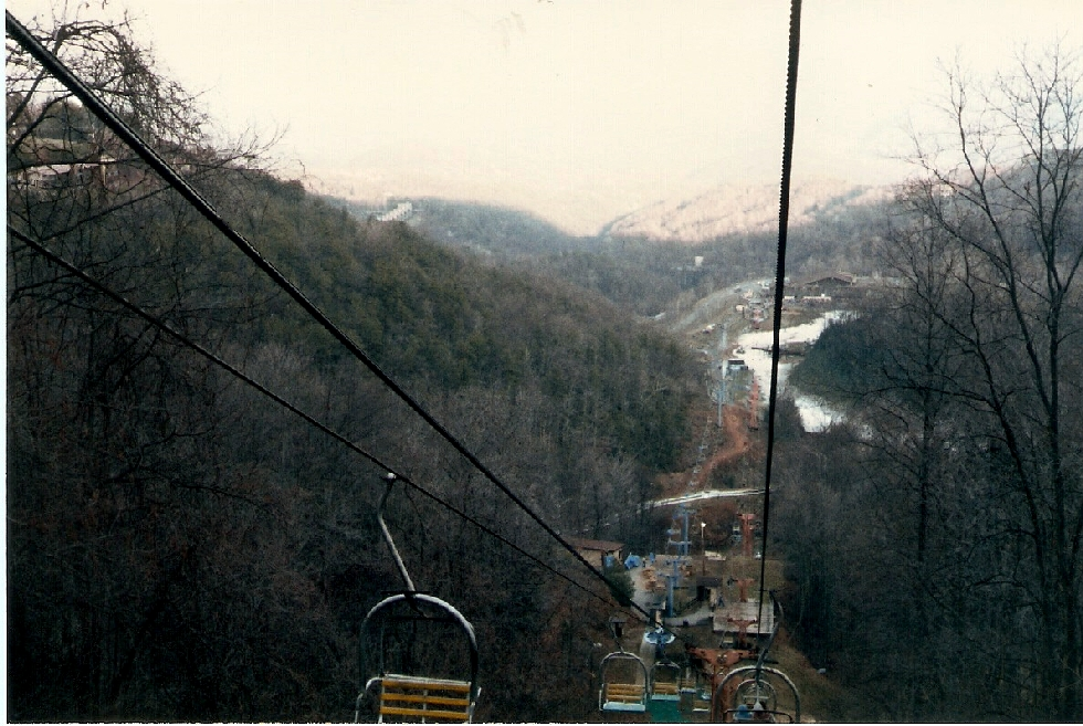 Chairlift, Ober Gatlinburg, Tennessee